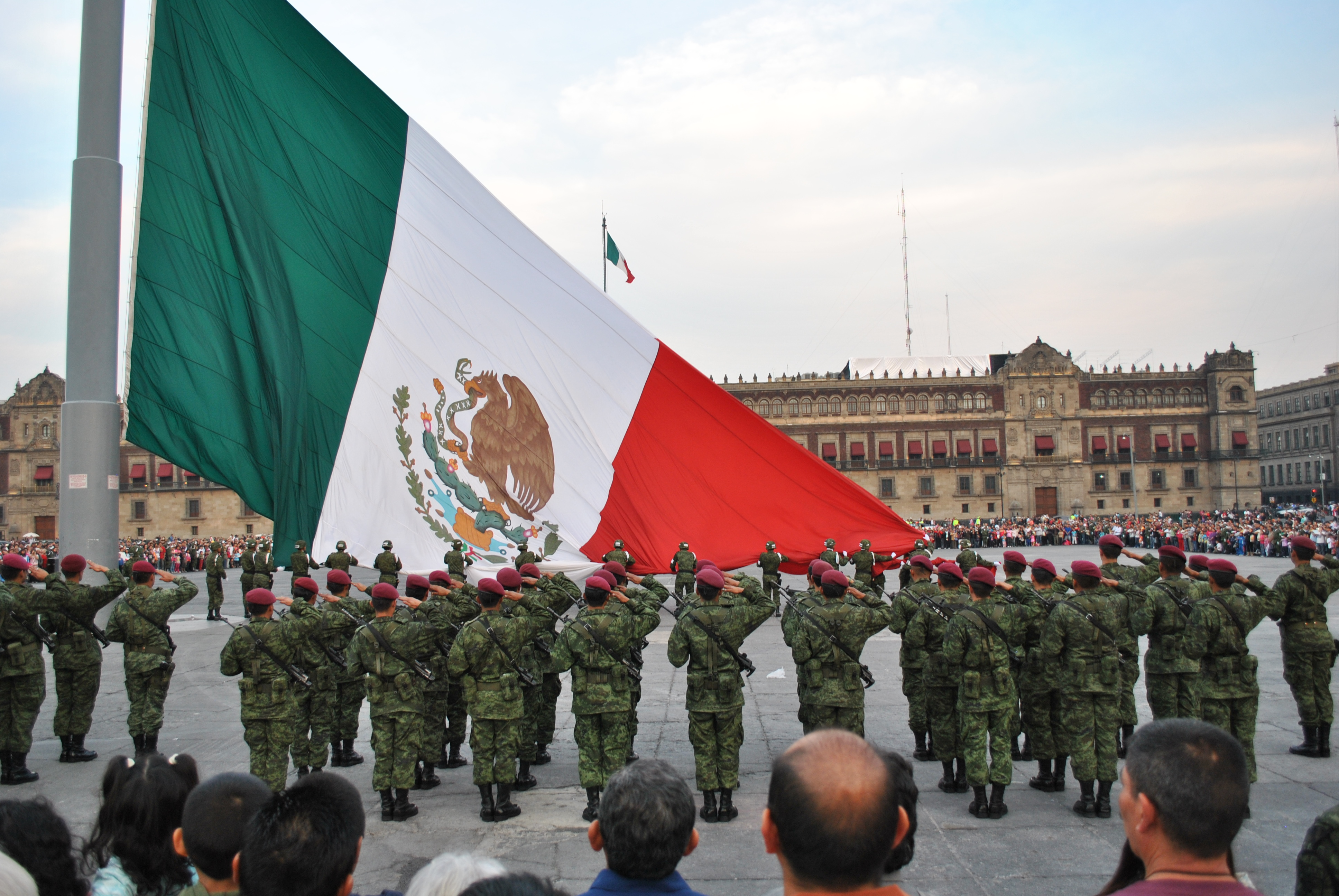 Every afternoon, a Mexican Army platoon lowers the monumental flag in Constitution Square also called "Zocalo".